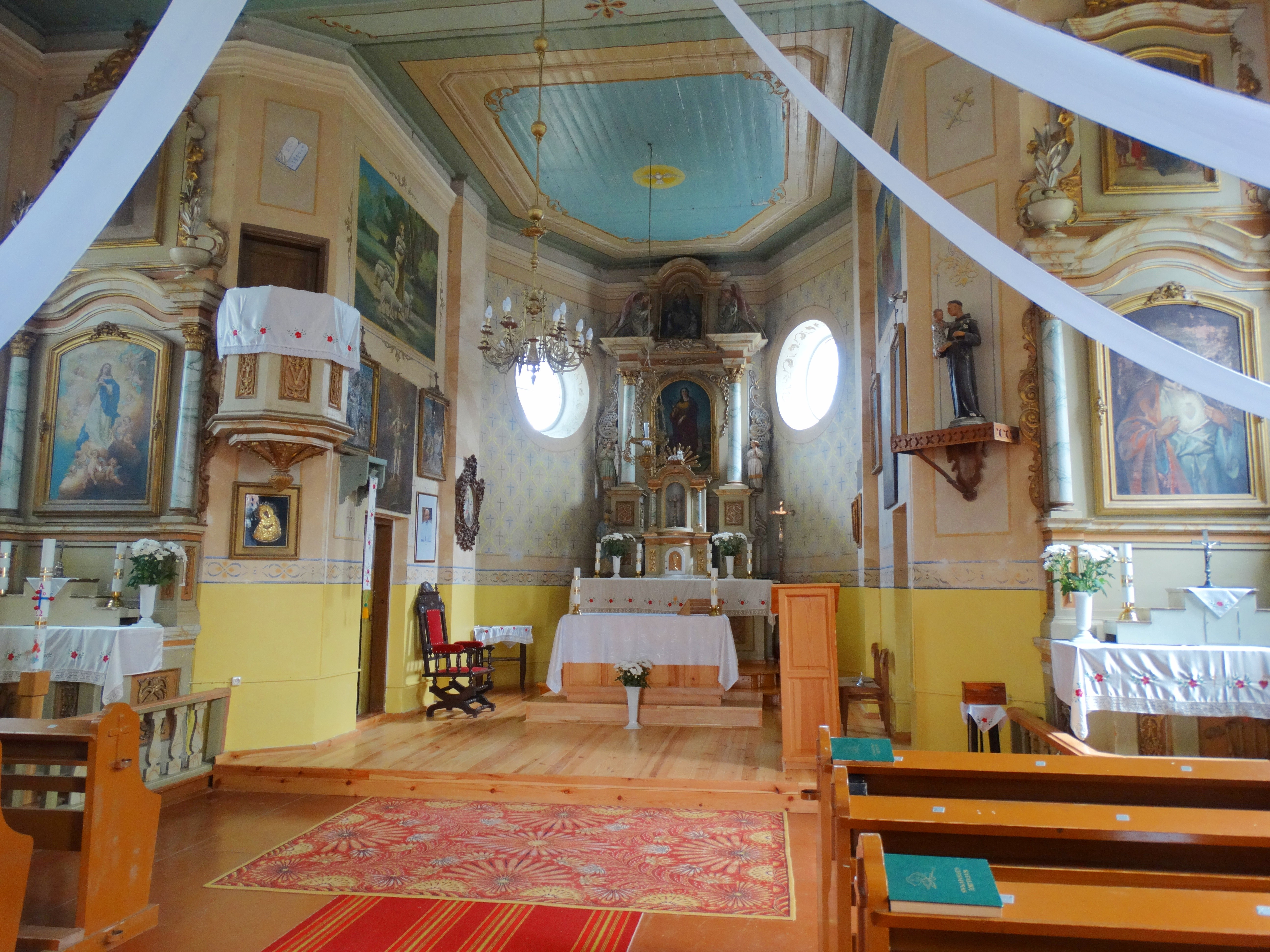 Church interior, Vadaktai (Sidabravas), Lithuania